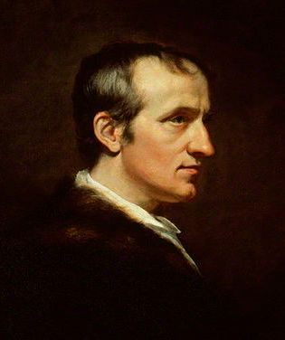 William Godwin, oil on canvas. Cropped version of a picture on Commons, uploaded by user Bogomolov.PL